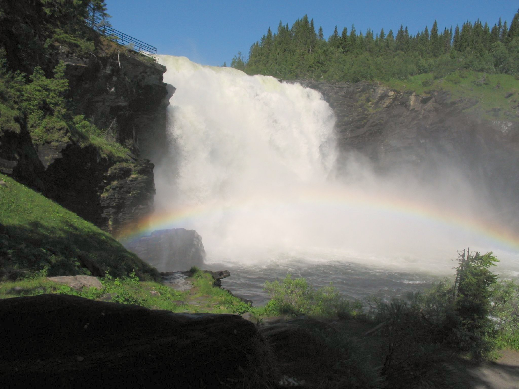 The Jämtland Niagara, in the middle of Sweden; photo by Ingegerd.